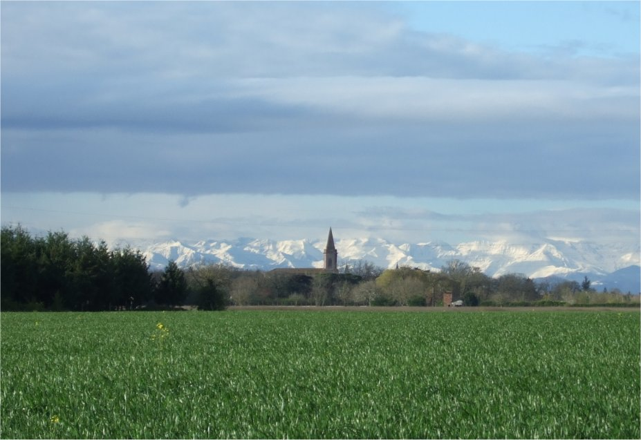 Against the backdrop of the Pyrenees, the church Seysses